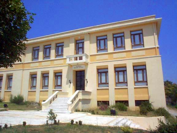 Outside view, image from the Natural History Museum, Axioupoli, West Macedonia, Greece